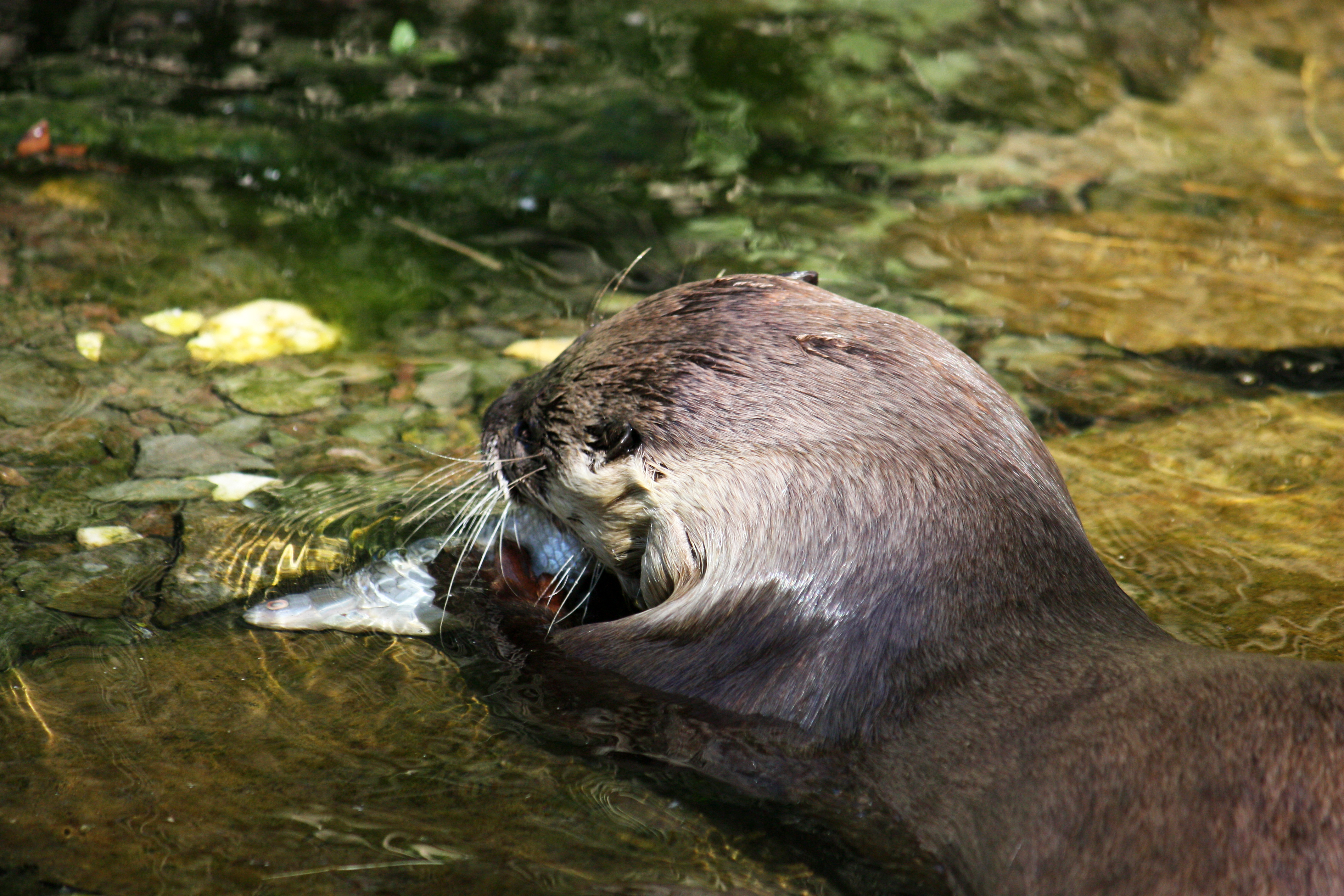 Northern River Otter (Lontra canadensis) with a fish (ZOOM Erlrebniswelt Gelsenkirchen)